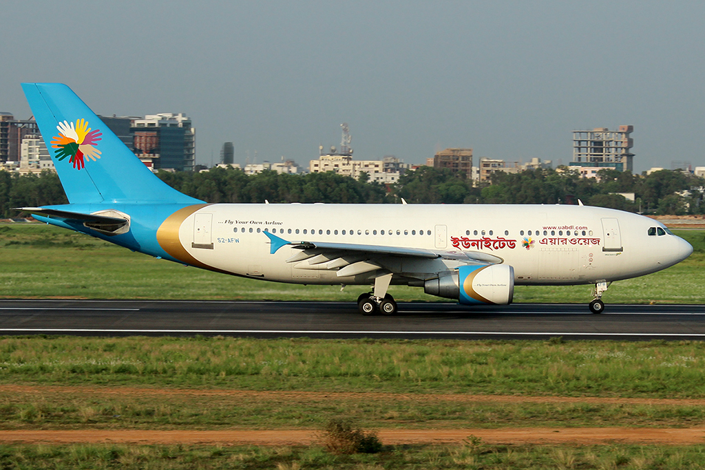 United Airways Airbus 313 is rolling up on RW14 of VGHS to take off.